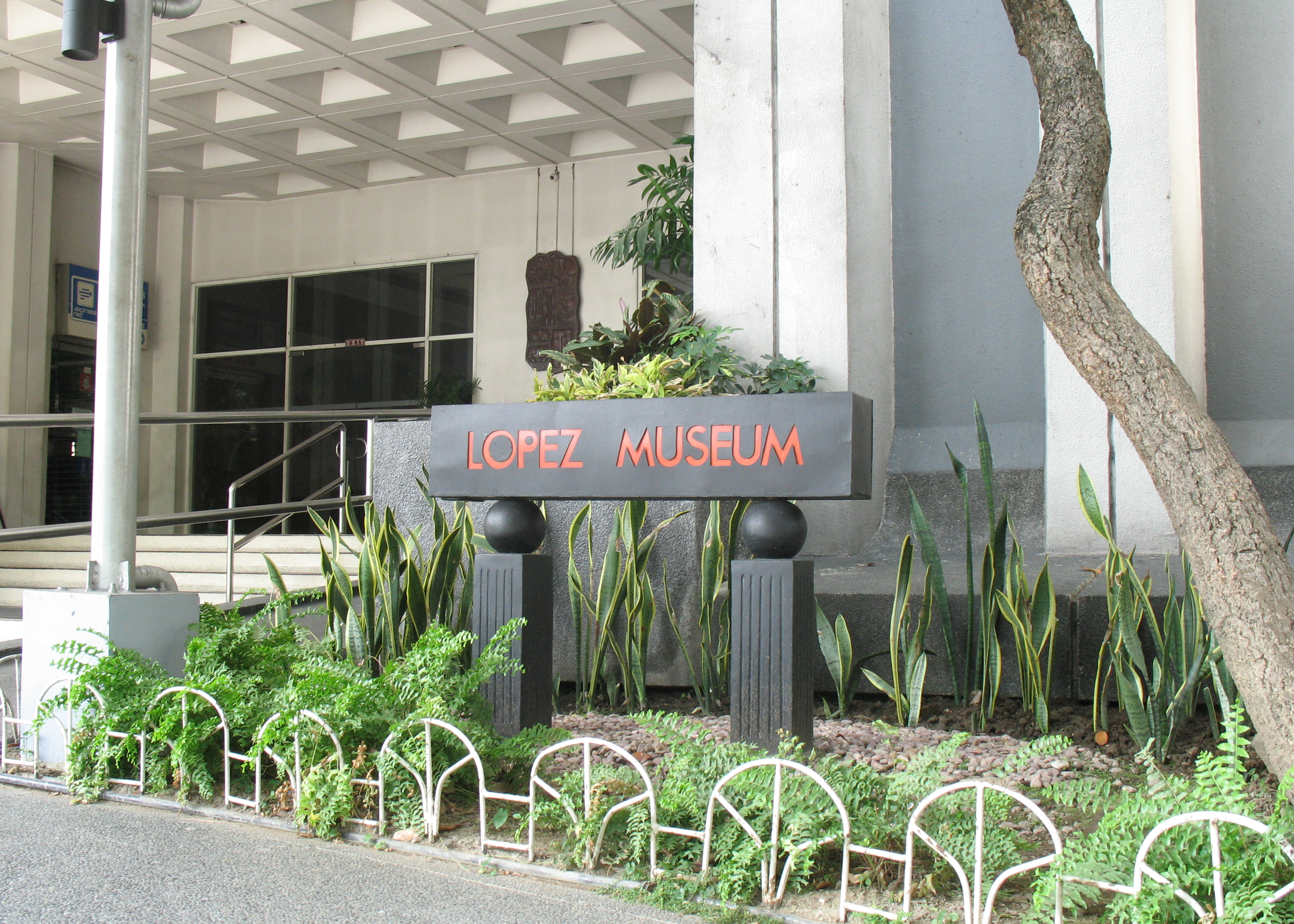 Facade of the Lopez Museum